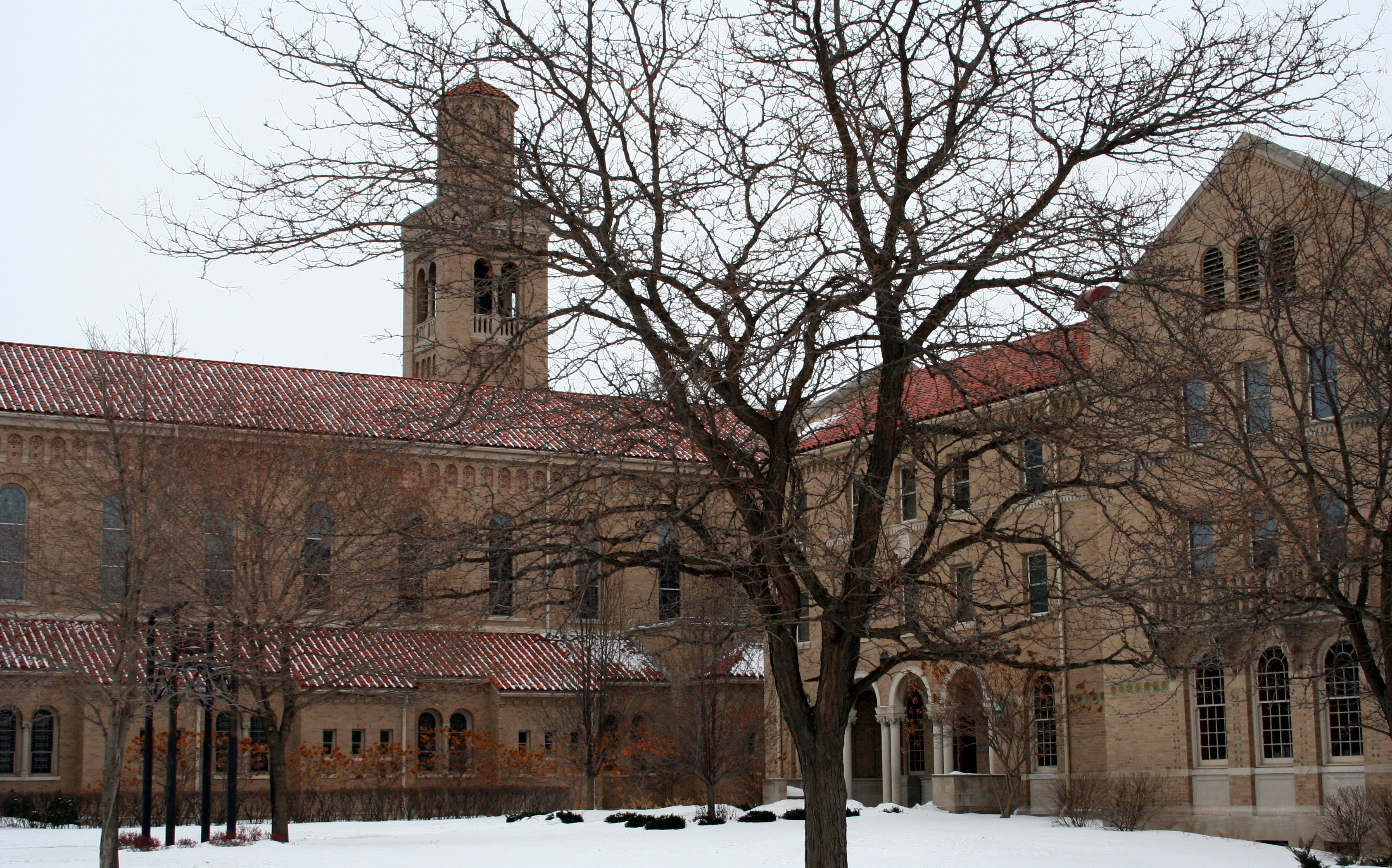 Historic chapel and convent buildings on the former College of Saint Teresa campus in Winona, Minnesota.